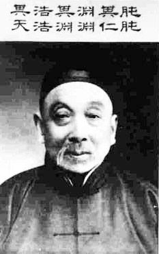 Duan Zhengyuan (1864－1940)